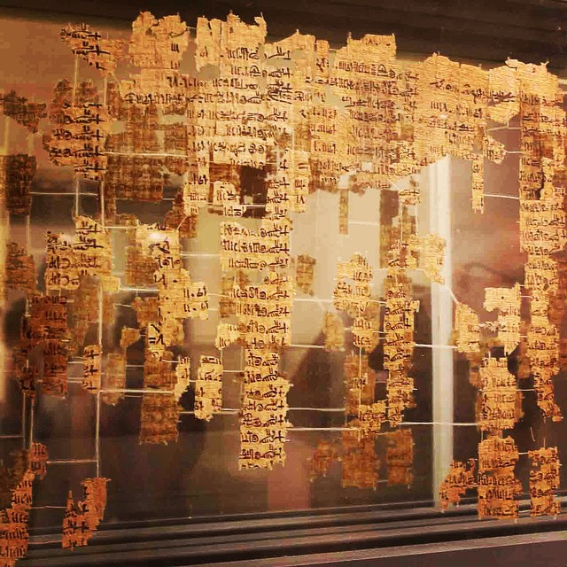 Turin King List